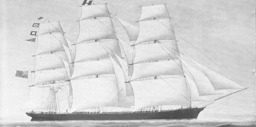 Wylo at sail carrying the flag of Killick Martin & Campany